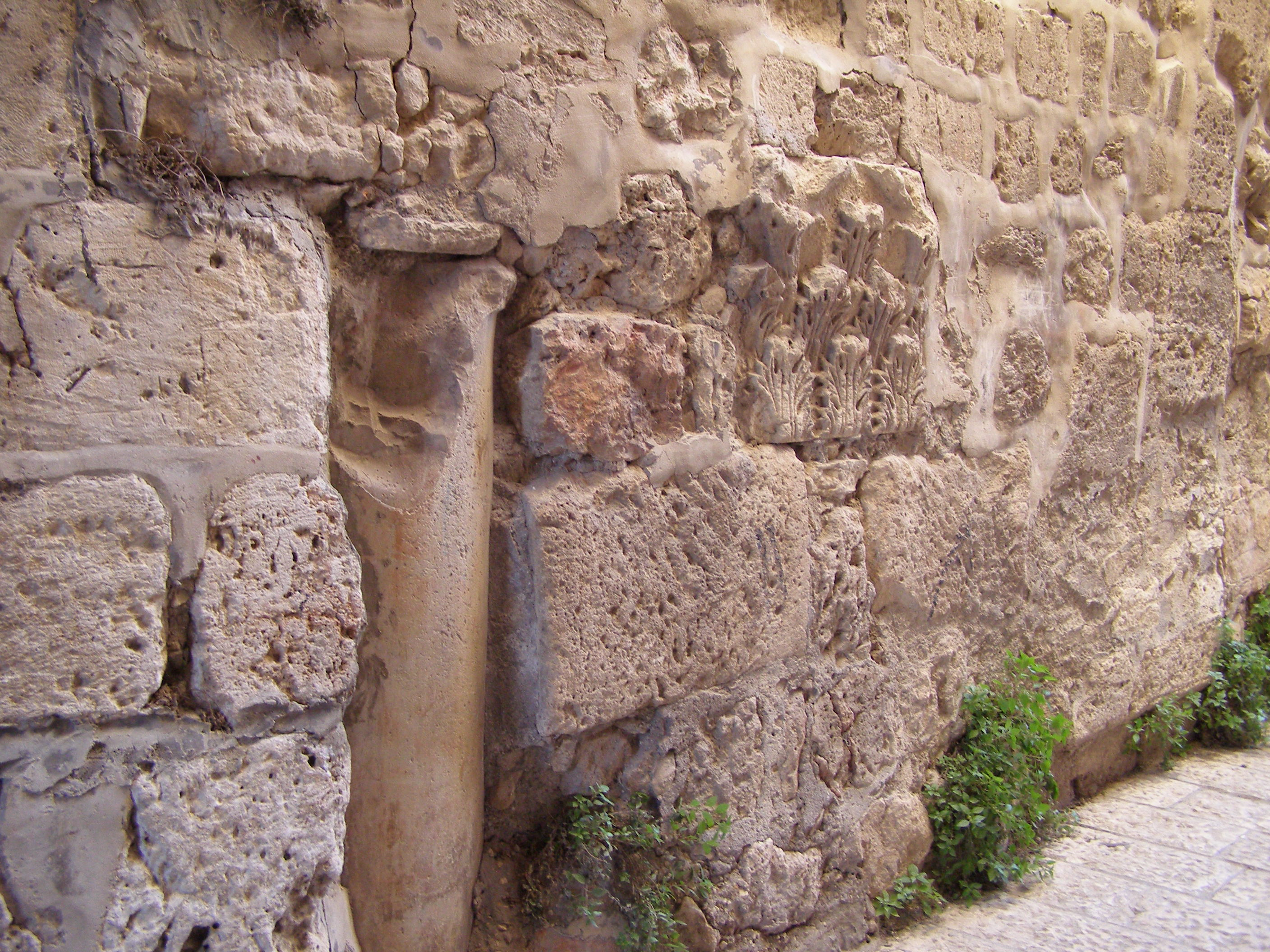 Scondary Usage of ancient columns in relativly new building